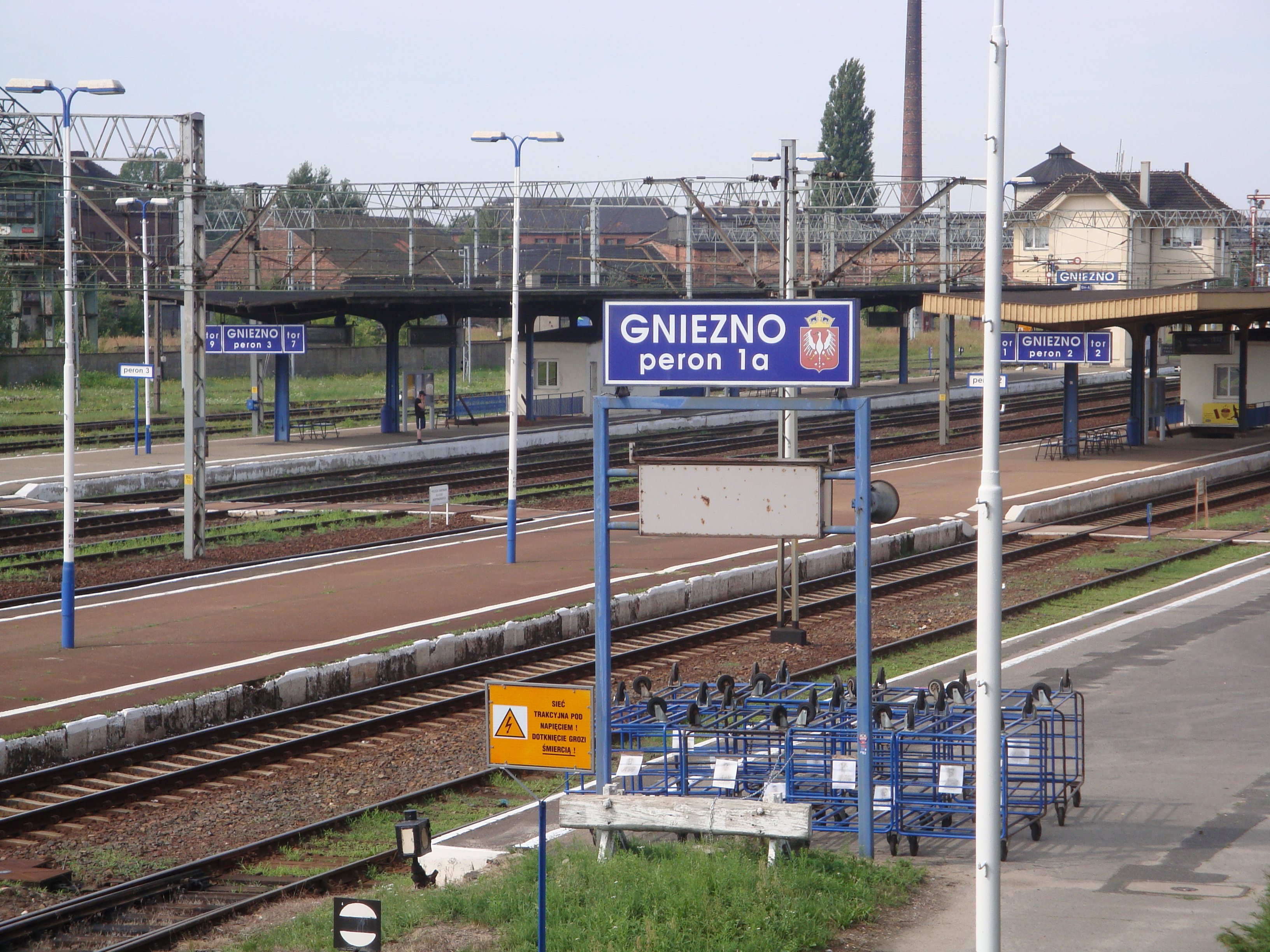 Stacja kolejowa Gniezno. This photo was taken during Railway Wikiexpedition 2013 set up by Wikimedia Polska Association. You can see all photographs in category Wikiekspedycja kolejowa 2013. English | Polski | +/−